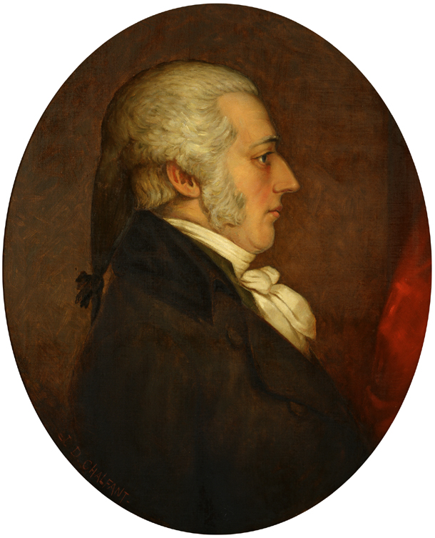 US Senator Nicholas Van Dyke